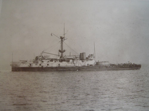 British battleship HMS Victoria.